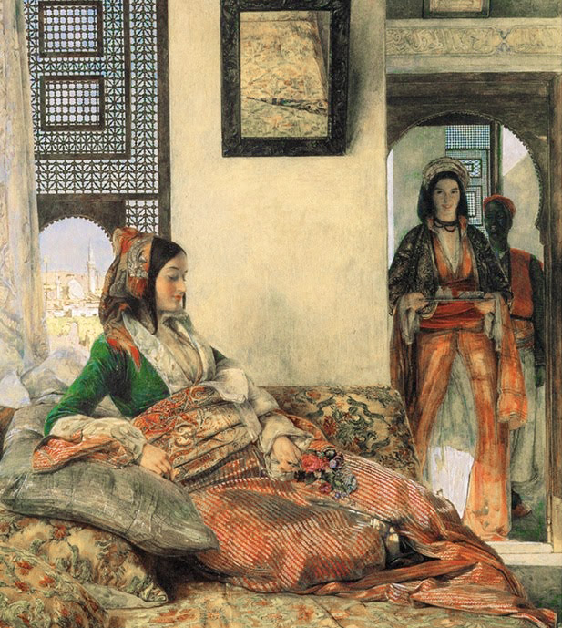 An Armenian lady, Cairo - The love missive. 46 x 35 cm. Oil on panel.